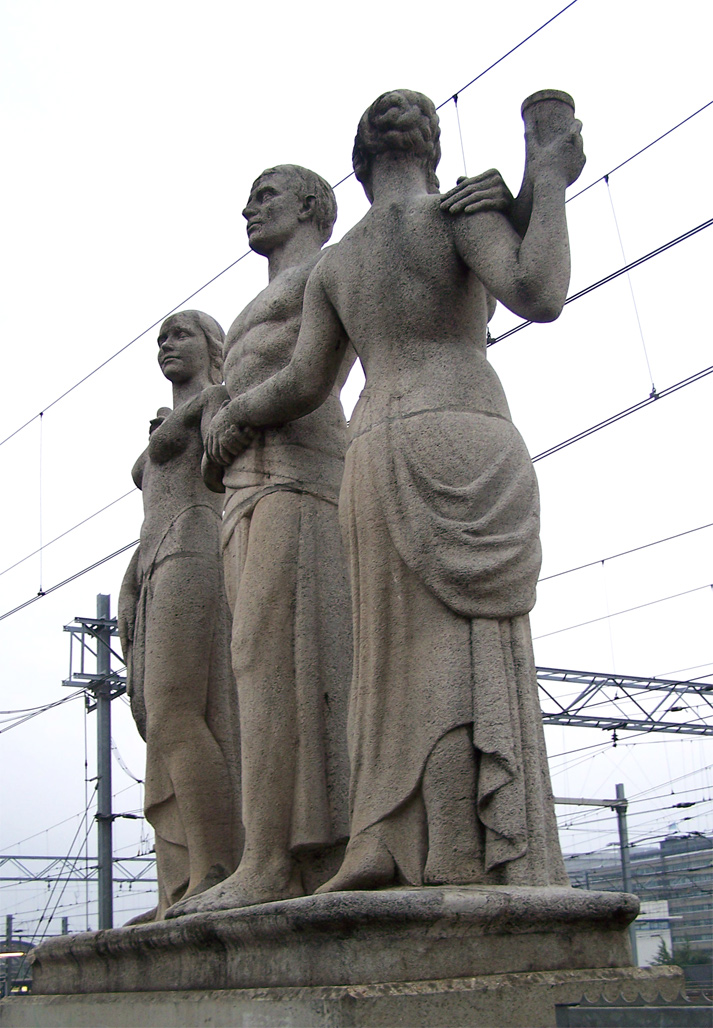 De Eendracht Van Het Land designed by Gerrit Jan van der Veen, sculptured by G.W. Harmsen. Placed on top of the Leidseveer-viaduct in Utrecht in 1940. It was the last statue made by this by Gerrit Jan. During the war he was a part of the Dutch resistance.